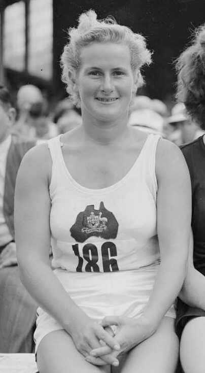 Place-getters in the women's javelin throwing event at the 1950 British Empire Games in Auckland, two from New Zealand, and one from Australia. Shows the athletes sitting on a bench. Photograph taken in February 1950 by an Evening Post photographer.